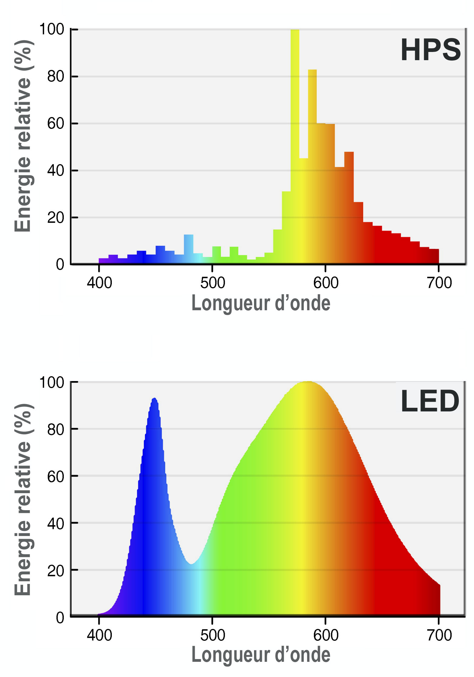 Relative spectral emission of 1) a high-pressure sodium (HPS) lamp (in this case : Sunlux ACE, NH-360 FLX; EYE Lighting, Wacol, Queensland, Australia) and 2) in this case : light-emitting diode (LED) 4000 K color temperature high bay lamp (LUXEON M, LXR7-SW40; Koninklijke Philips, Amsterdam, The Netherlands). Emission spectra are normalized to the spectrum with the maximum intensity and were kindly provided by each manufacturer.